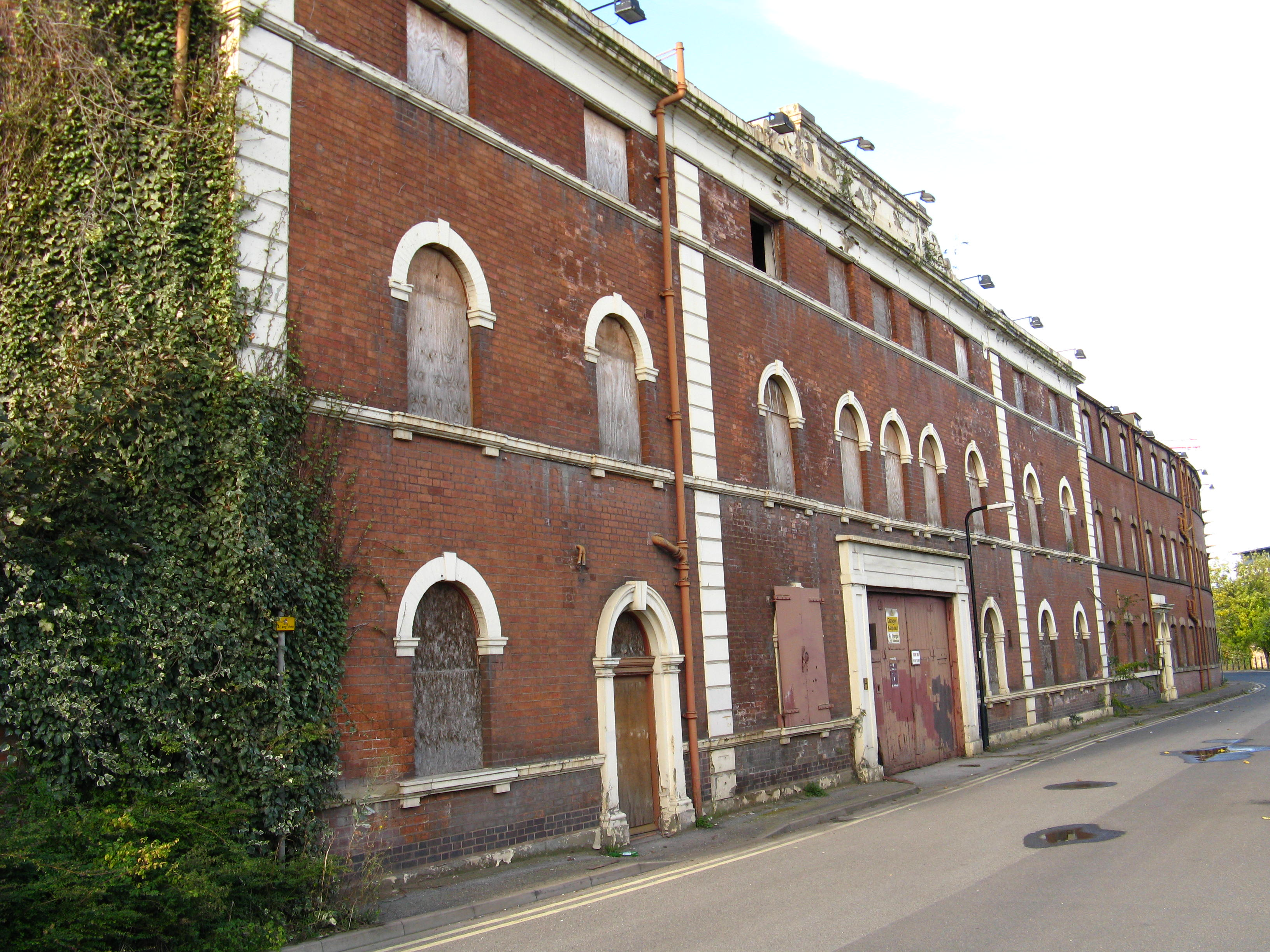 Industrial revolution grandeur